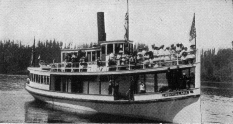 Lady of the Lake, Lake Washington steamboat, built 1897, later worked on Puget Sound as a tug under name of Ruth.